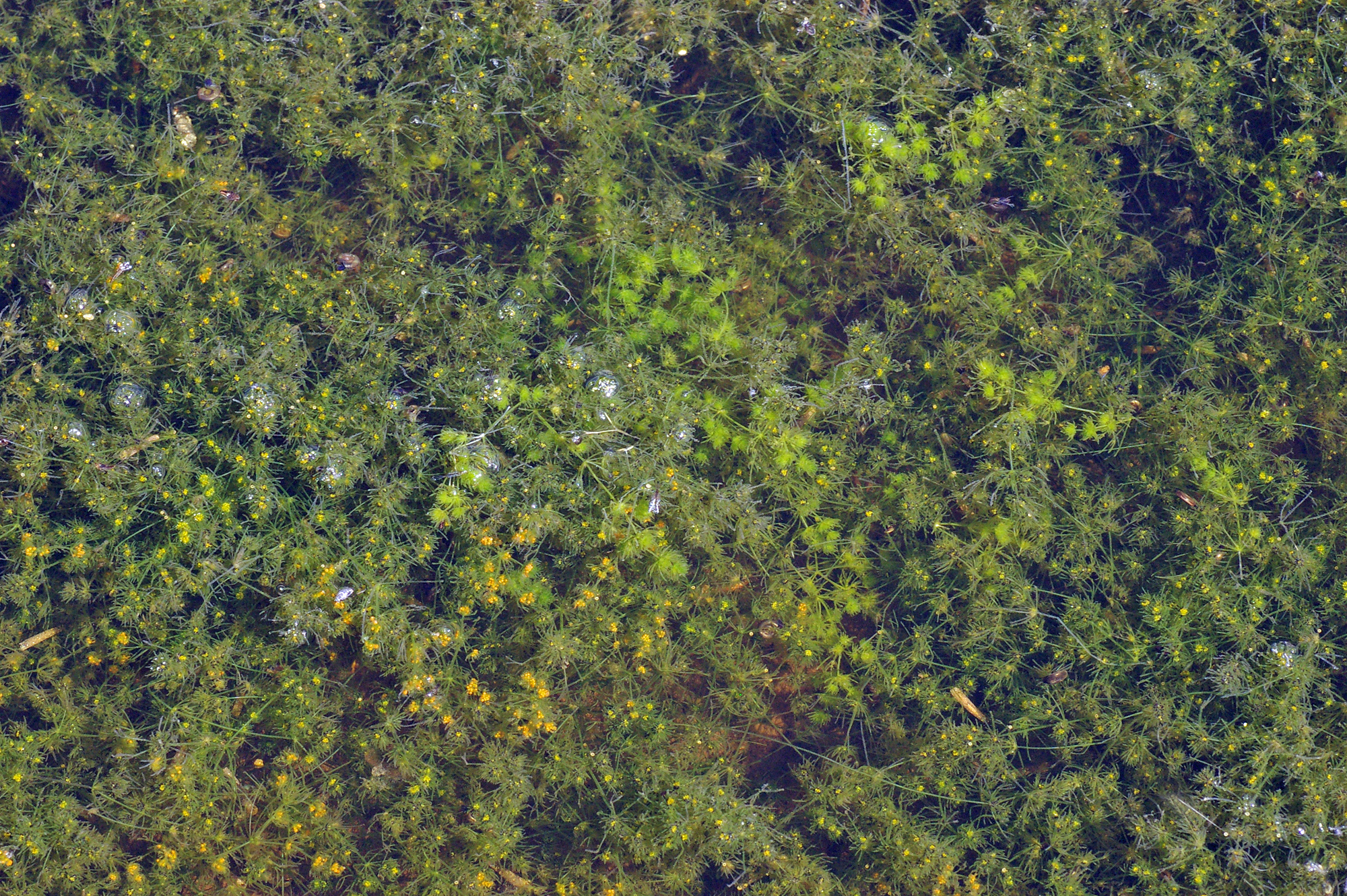 Aspect of stoneworts algae from the genus Nitella (Characeae) submerged in a shallow pond. The exact species was not able to be identified, probably Nitella opaca or Nitella capillaris.